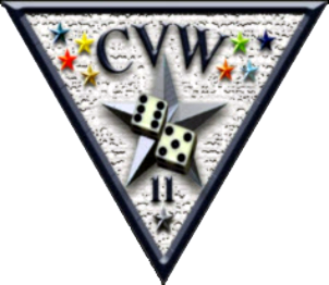 Insignia of the U.S. Navy Carrier Air Wing 11 (CVW-11).